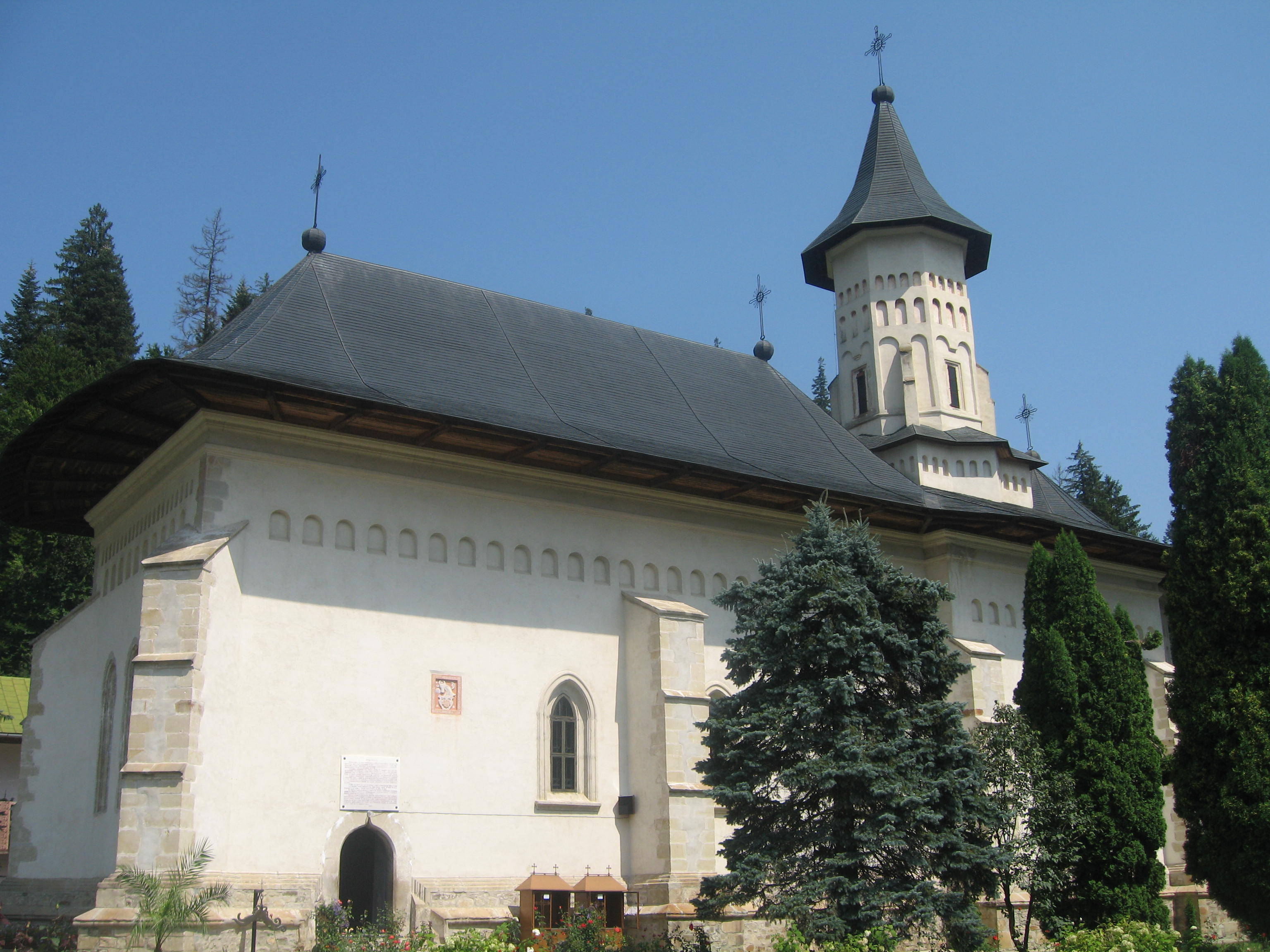 Slatina Monastery